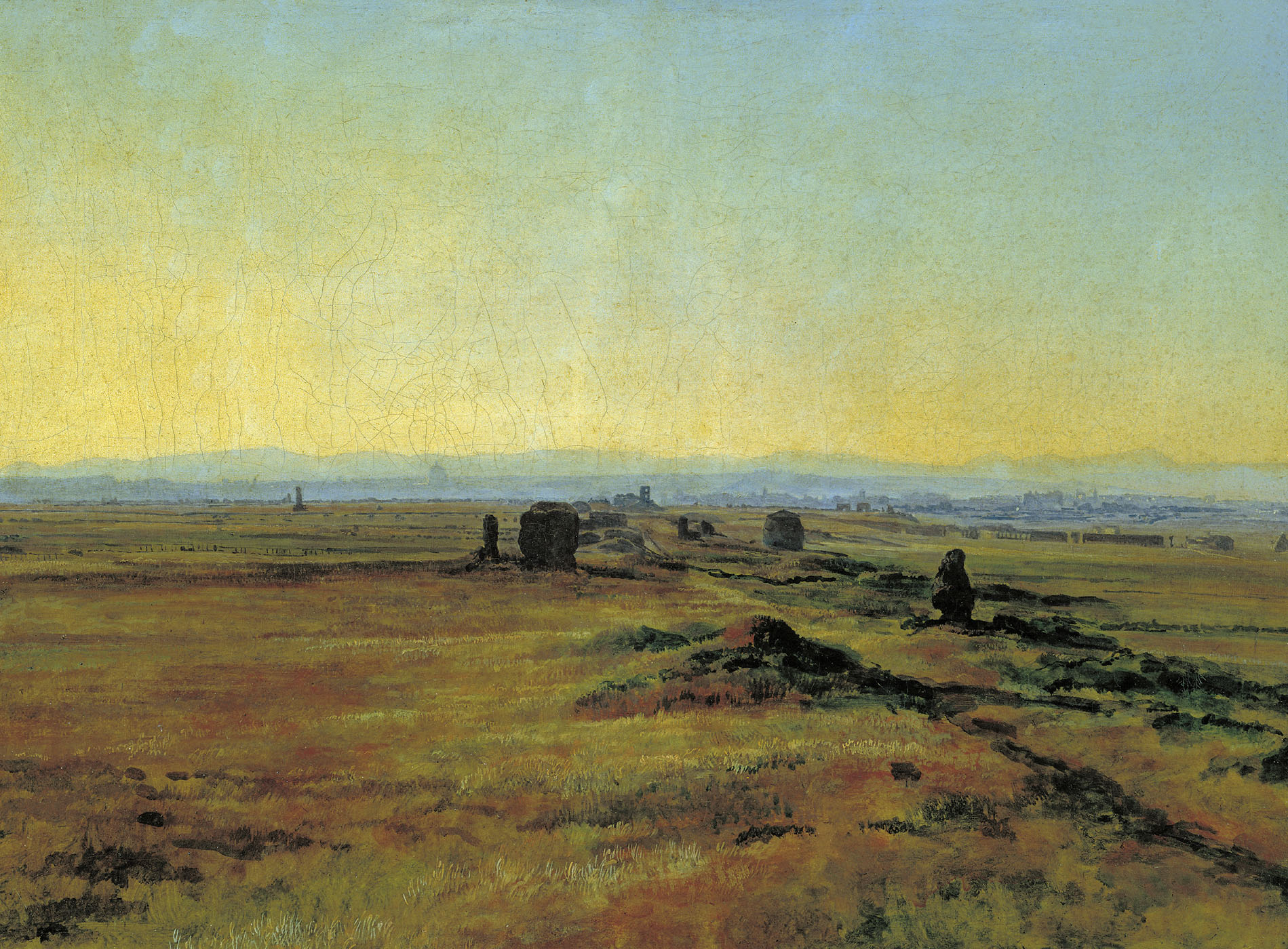 The Appian Way at Sunset